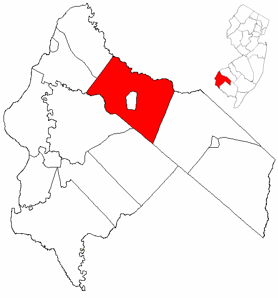 Map of Salem County highlighting Pilesgrove Township